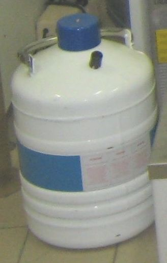 A 10 l Dewar flask equipped with a safety valve, for liquid nitrogen storage and transport (for example).